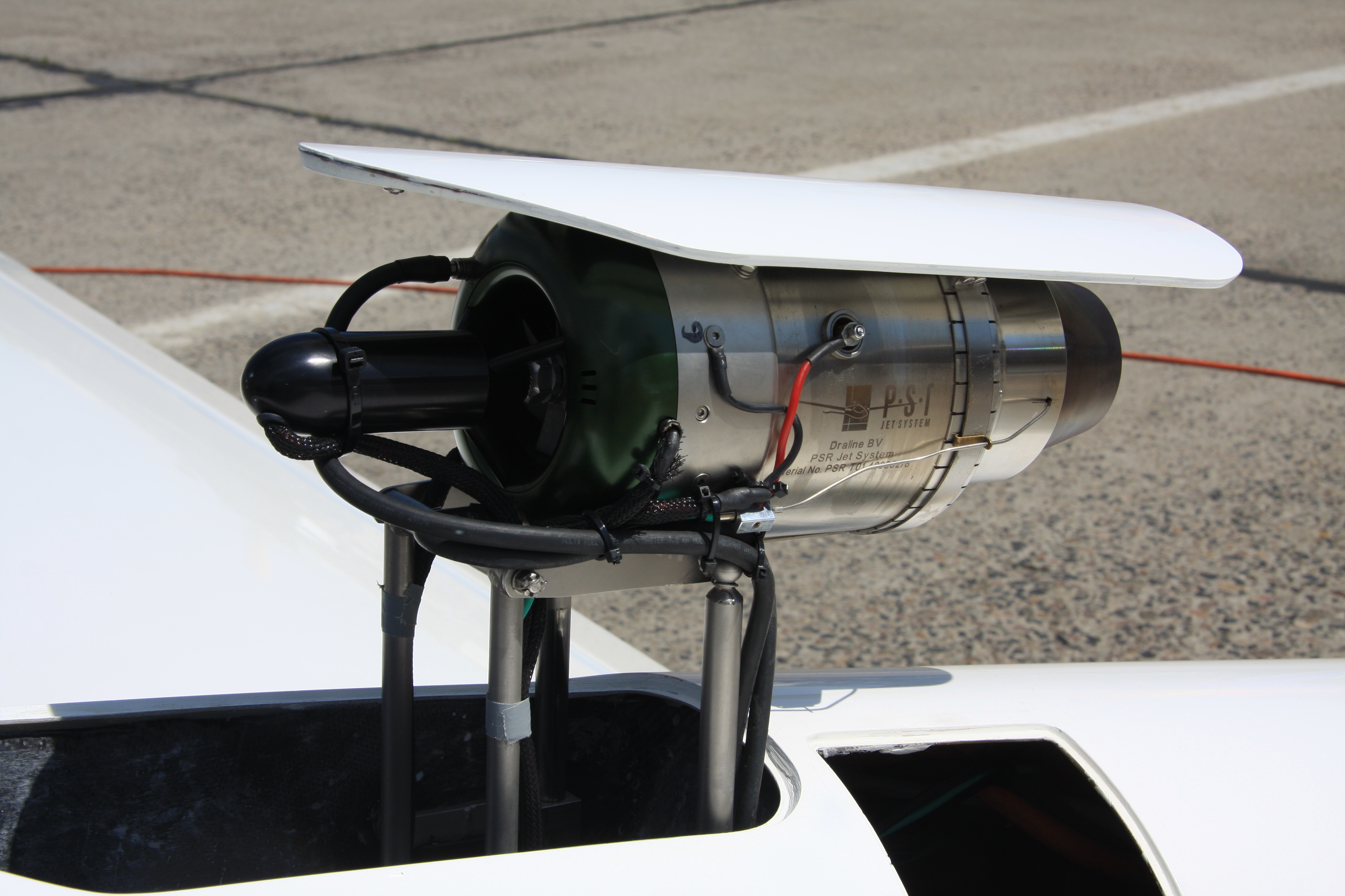 An ASW 20 CLT (picture taken during the International Air and Space Exhbition)